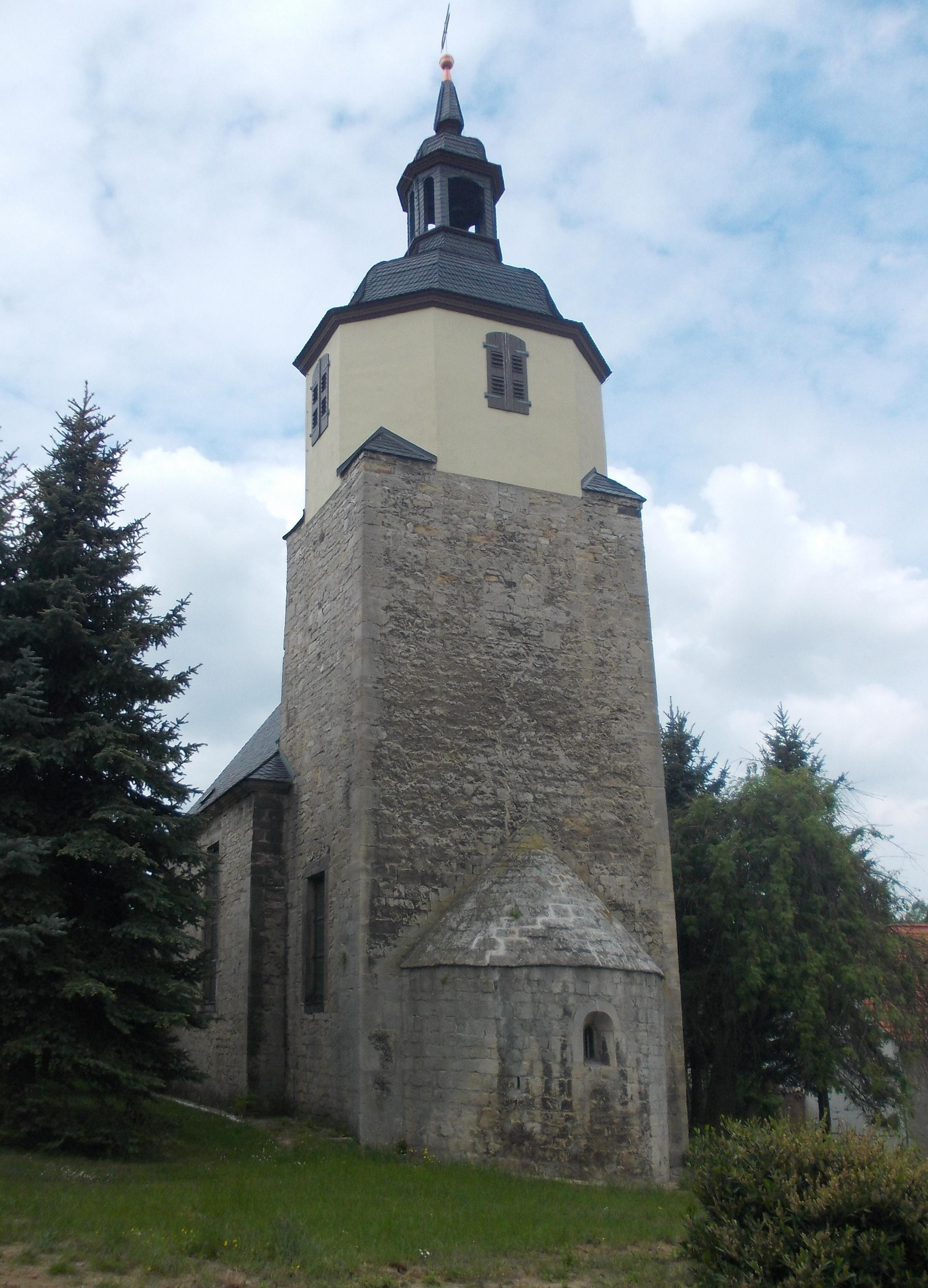 Hirschroda church (Balgstädt, district: Burgenlandkreis, Saxony-Anhalt)